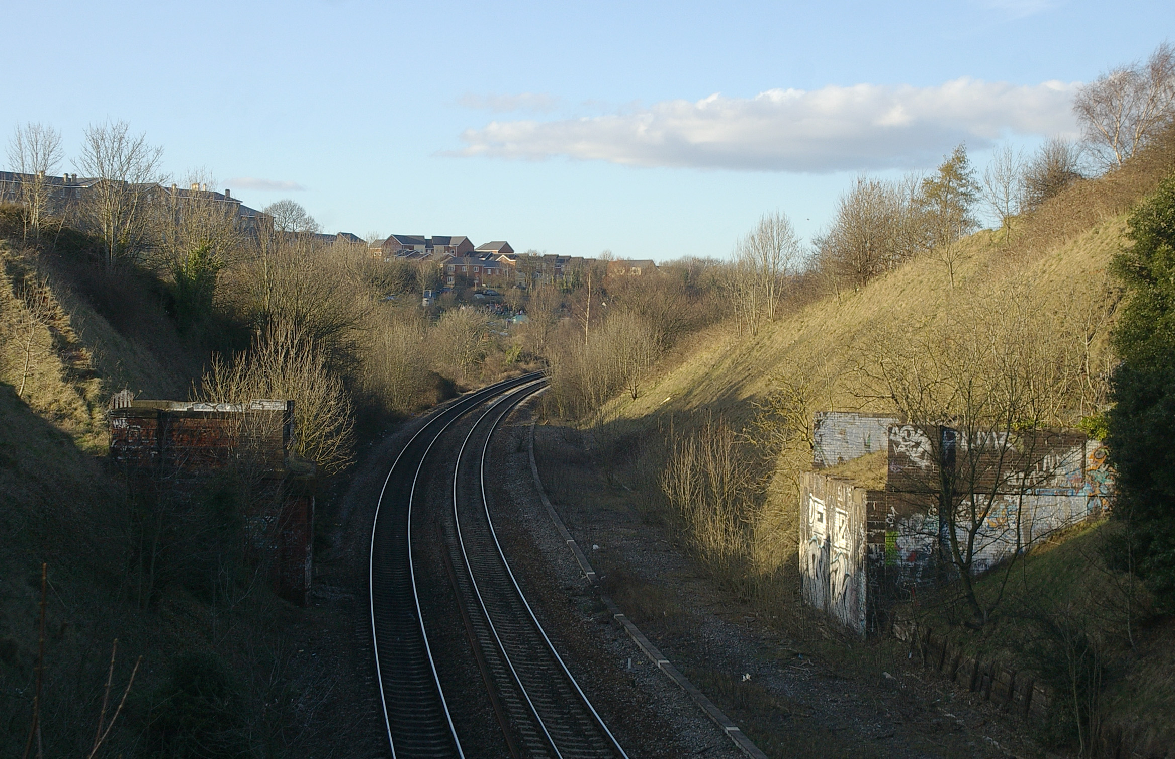 Bristol to Gloucester line, just north of Narroways Junction. The brick structures are where the Midland Railway's Bristol to Bath line went over the main (GWR) Bristol to Gloucester line to join up with the Severn Beach Line.